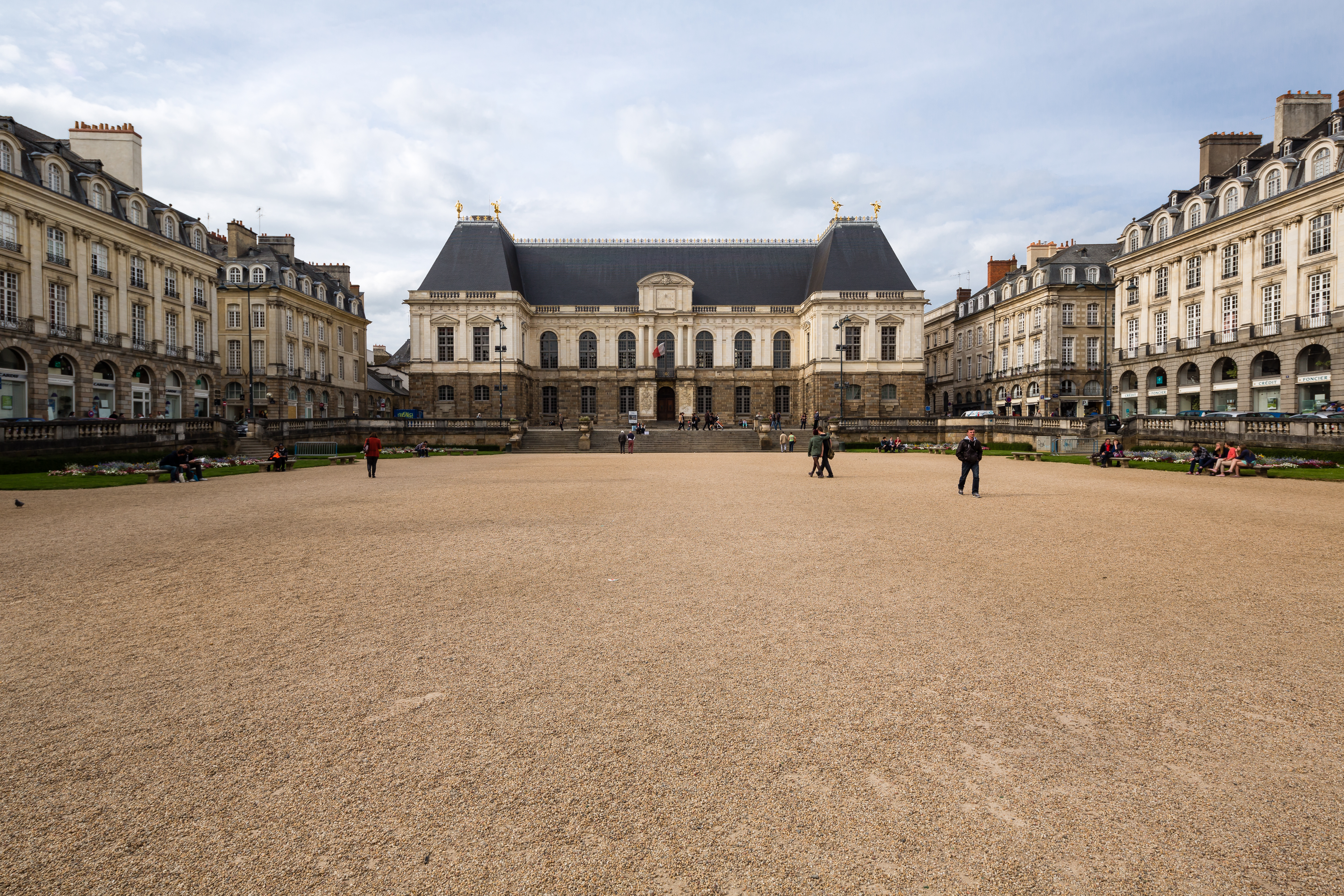 General view of the place du parlement de Bretagne in Rennes (France), from its southern entrance.